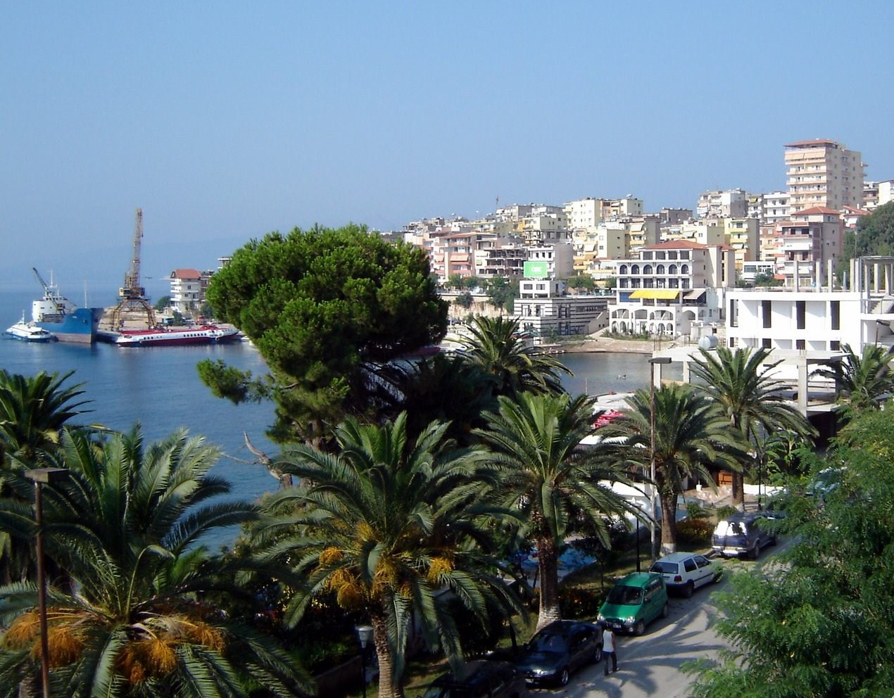 Sarandë, Albania: northern end of the bay with the harbour